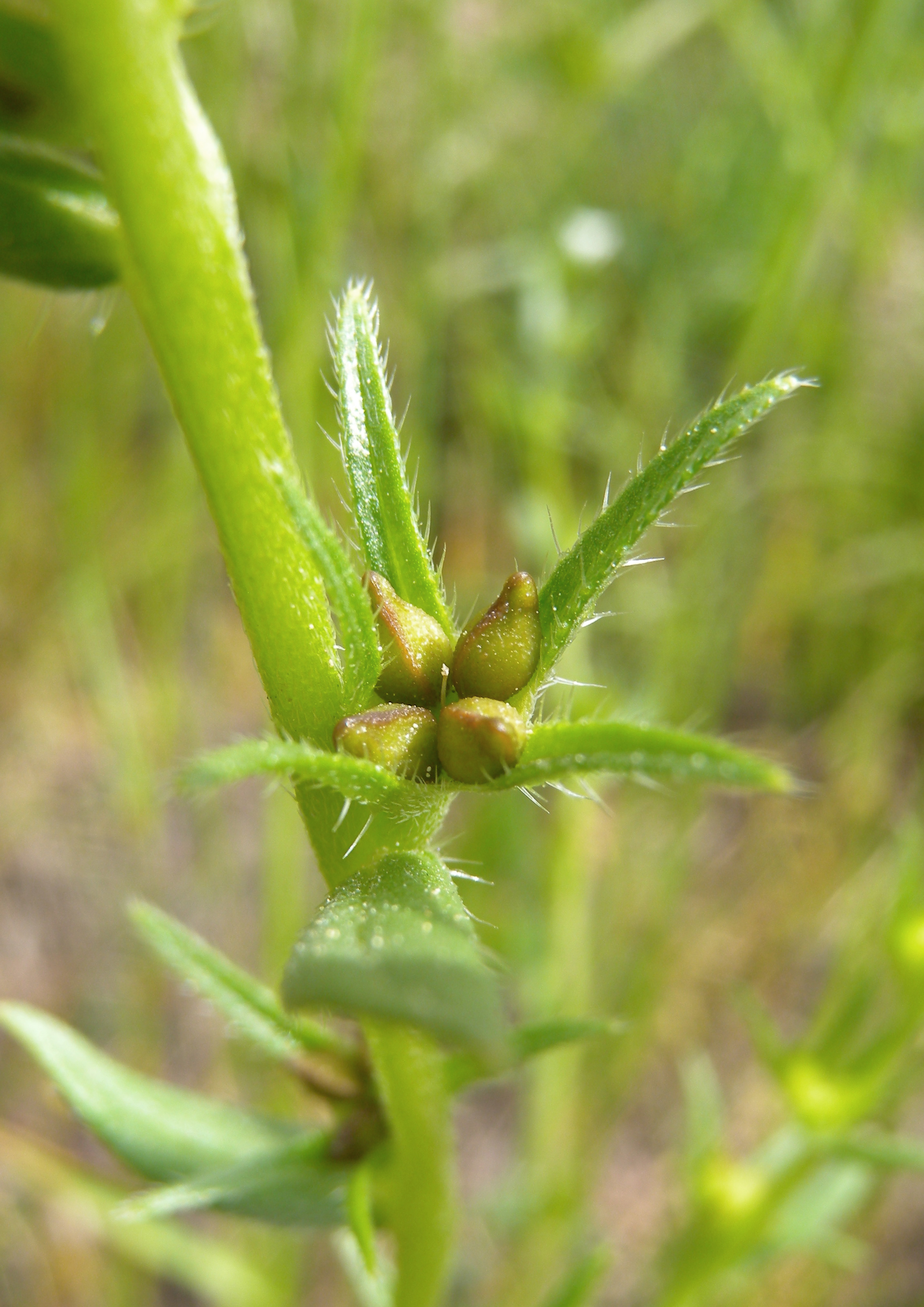 Fruit of Buglossoides arvensis (Boraginaceae); Erschmatt, Canton of Valais, Switzerland